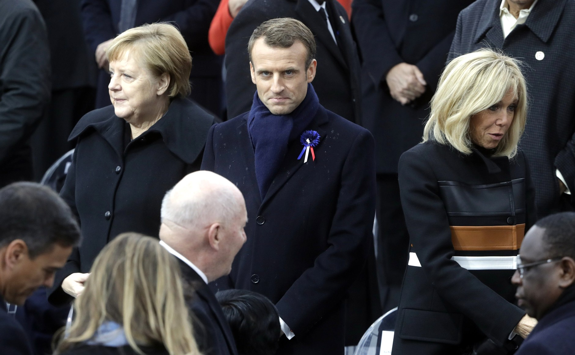 Commemorative ceremony marking the centenary of Armistice Day. Federal Chancellor of Germany Angela Merkel (left) and President of the French Republic Emmanuel Macron and his wife Brigitte Macron.